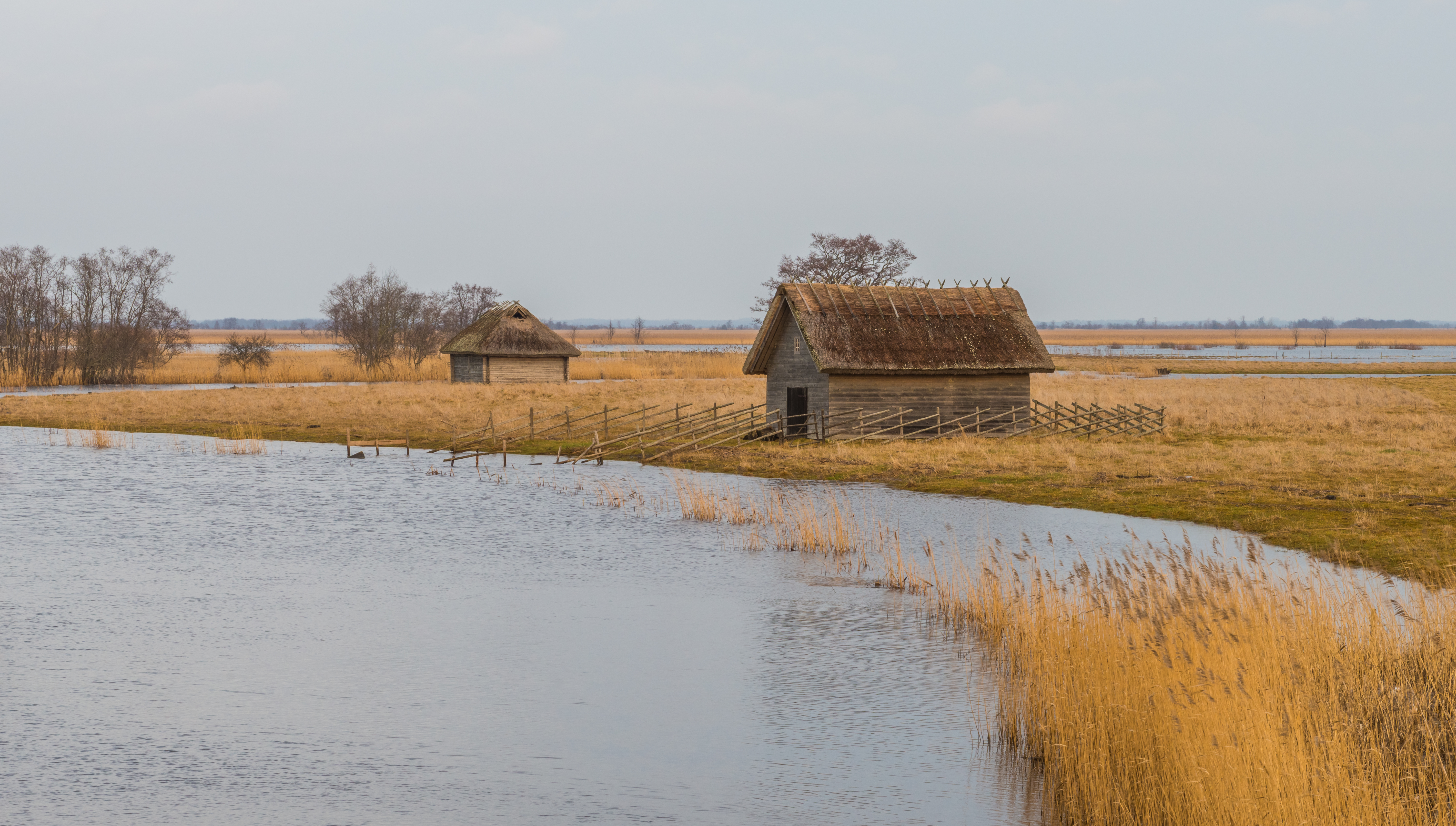 Fishermen huts by the Suitsu river in Matsalu National Park